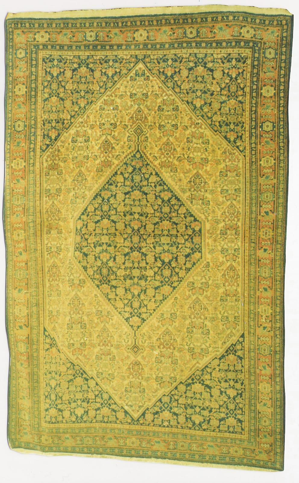 Antique Senneh Rug, mid to end 19th century